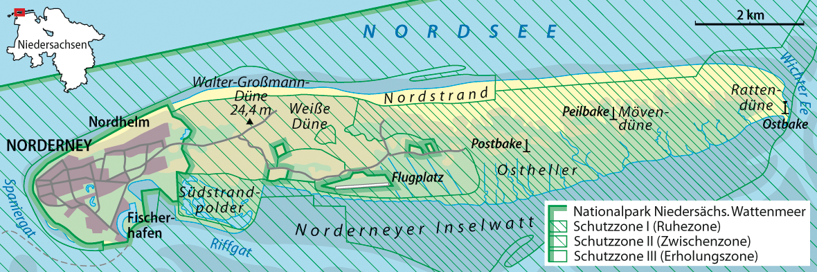 Map of Norderney with zones of Lower Saxony Wadden Sea National Park